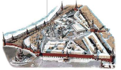 Overview map of the Moscow Kremlin. Location of Tsar Bell marked.